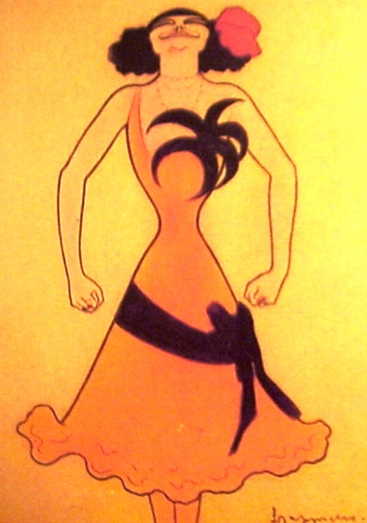 Polaire